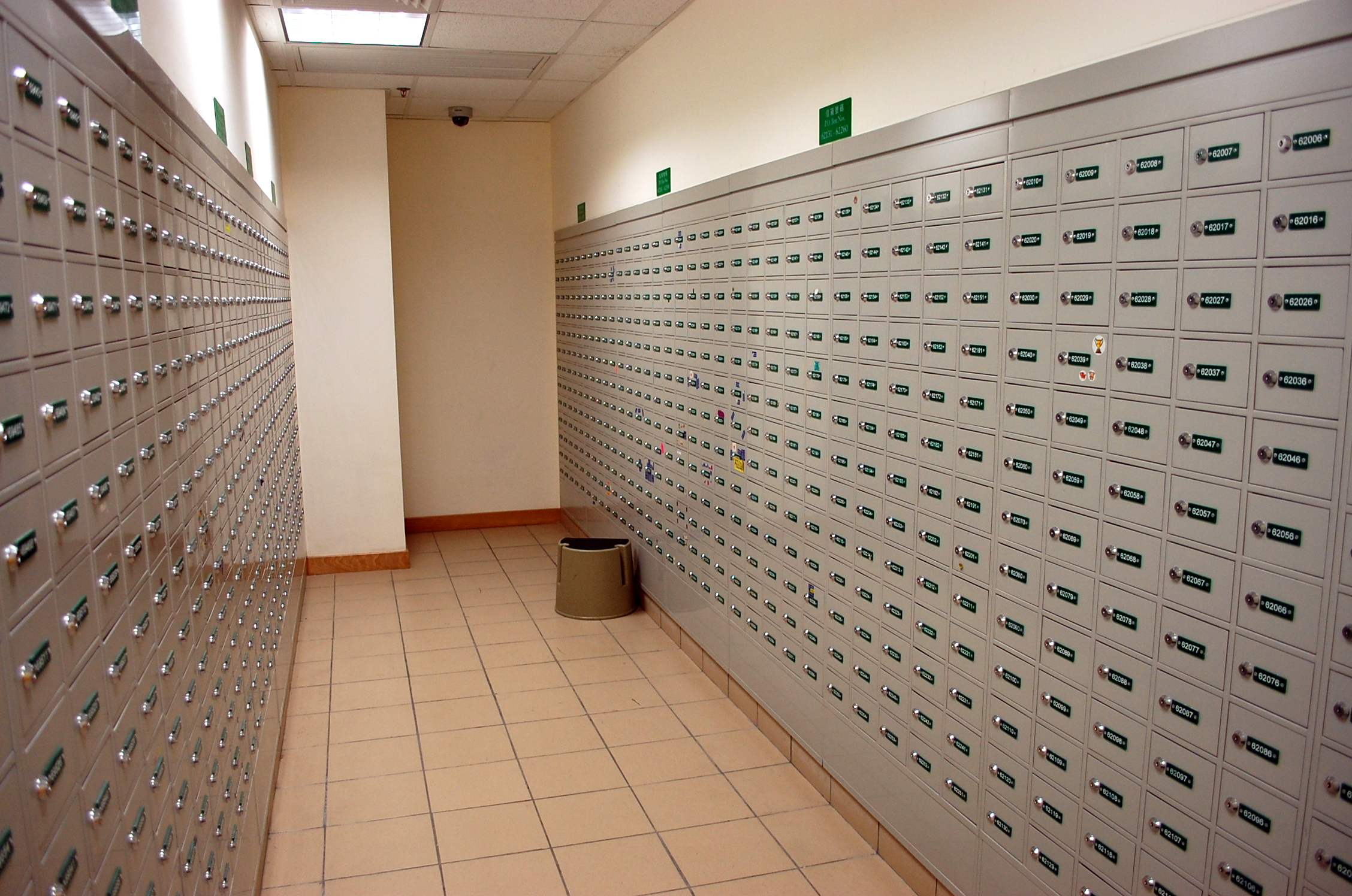 Post office boxes of Hongkong Post at Kwun Tong Post Office. 中文（香港）: 香港郵政郵政信箱